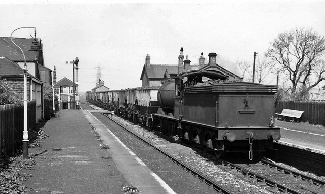 Bebside Station (disused). View NW, towards Bedlington, Morpeth and Newbiggin; Blyth & Tyne section, Newcastle - Backworth - Morpeth/Newbiggin line, closed (with Bebside station) to passengers 2/11/64 (Bedlington - Morpeth 3/4/50), to goods 7/6/65. Therefore the Up empties train in the photograph, headed by a tender-first ex-NER J27 0-6-0 must have been one of the last.